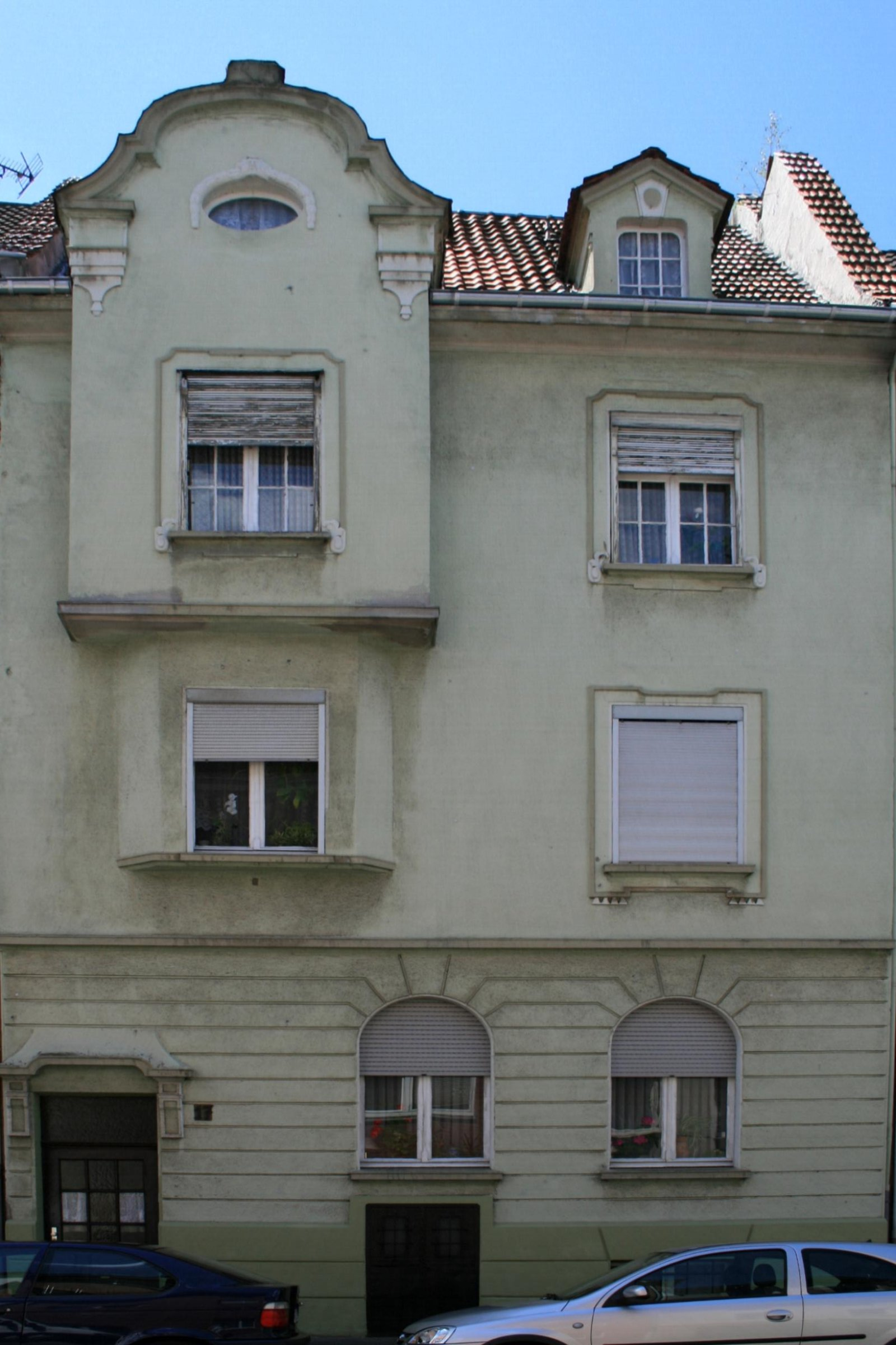 Cultural heritage monument No. L 031 in Mönchengladbach